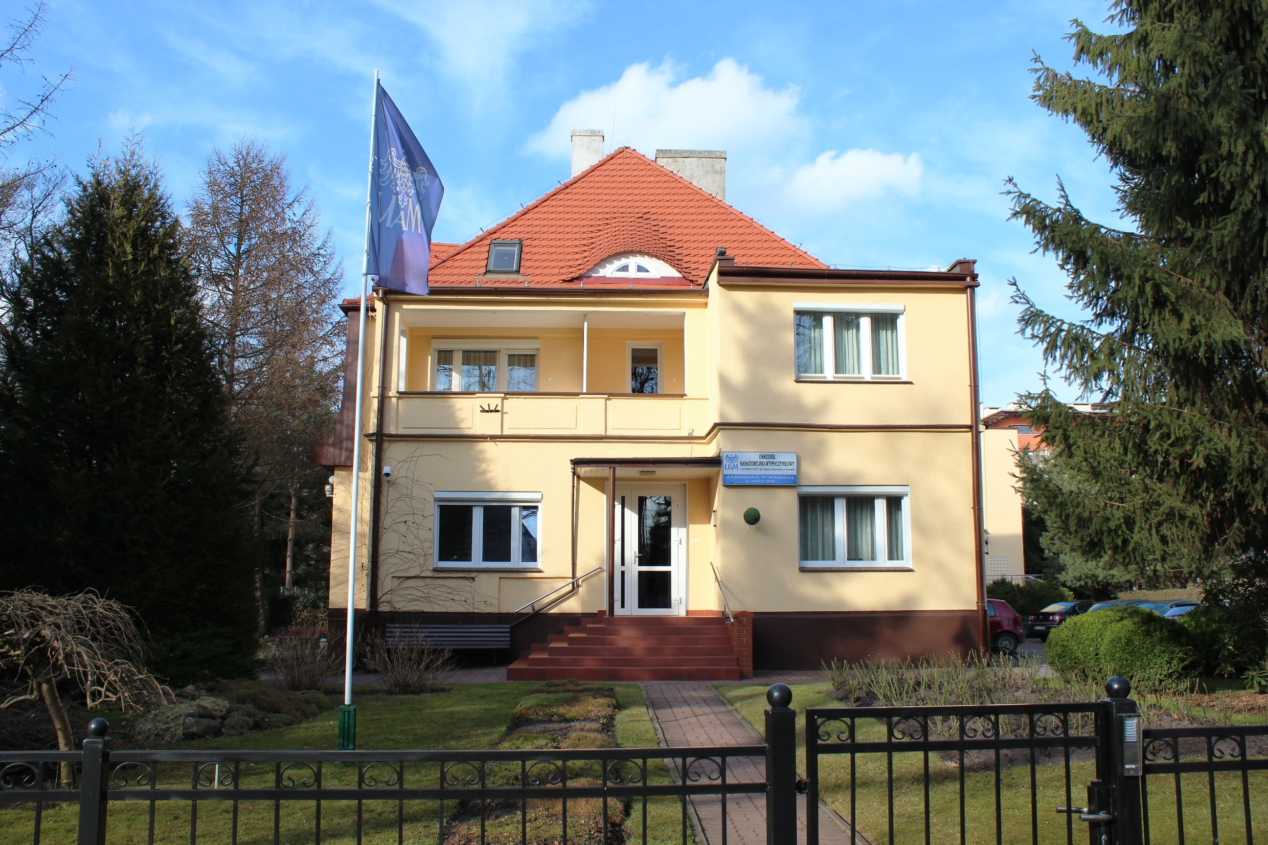 Adam Mickiewicz University Sanatorium in Kołobrzeg